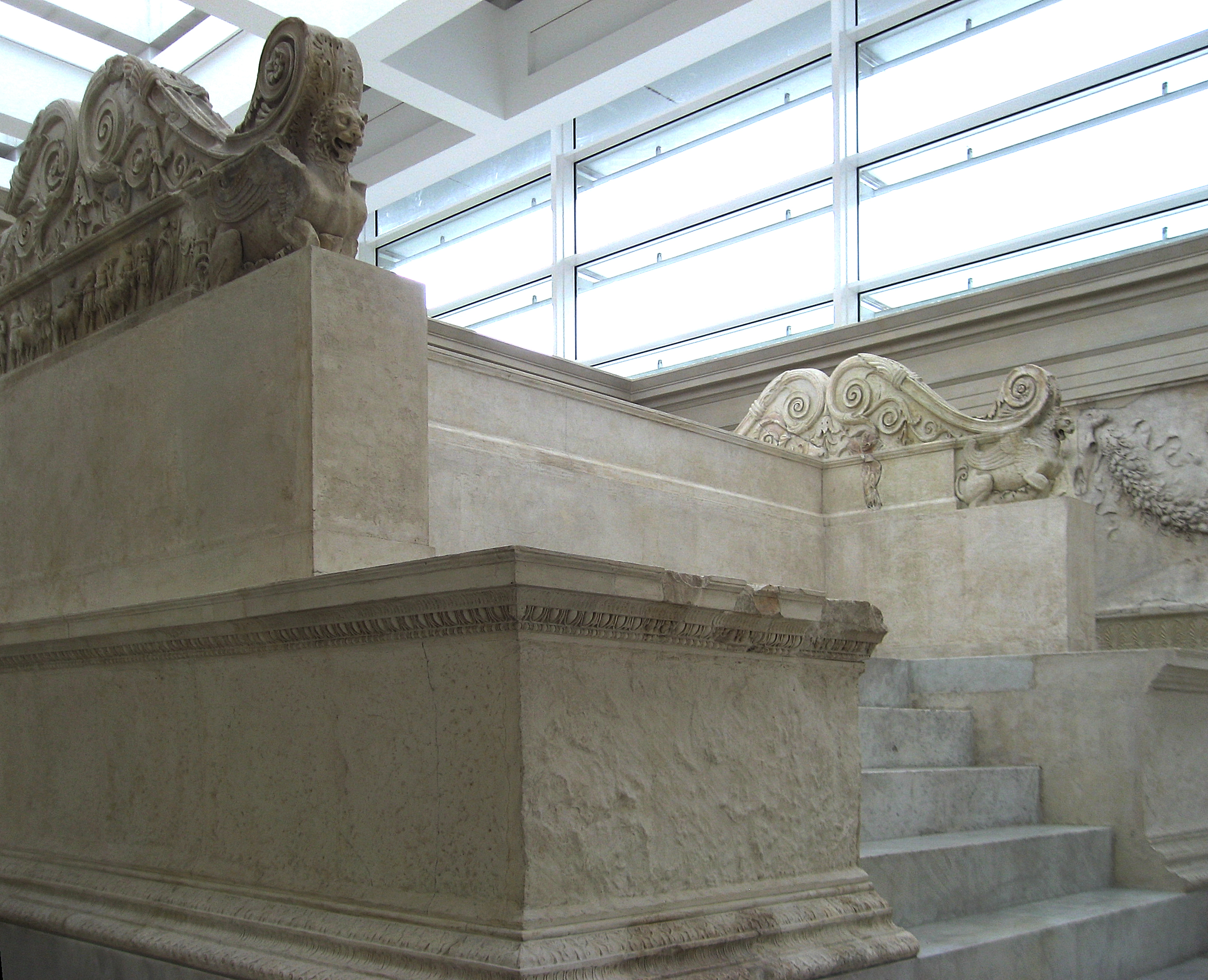 Ara Pacis in Rome/Italy - remains of the altar